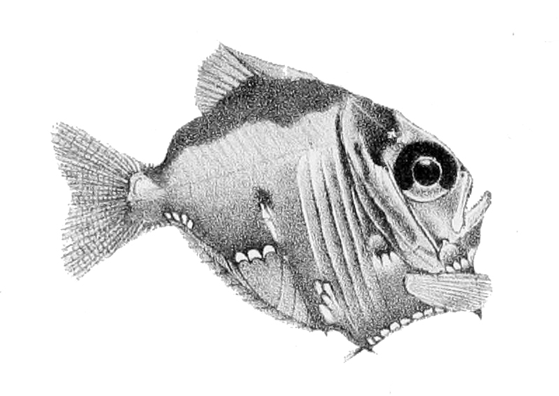 Sternoptyx diaphana